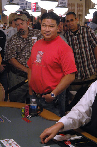 Johnny Chan at 2006 World Series of Poker Rio Las Vegas